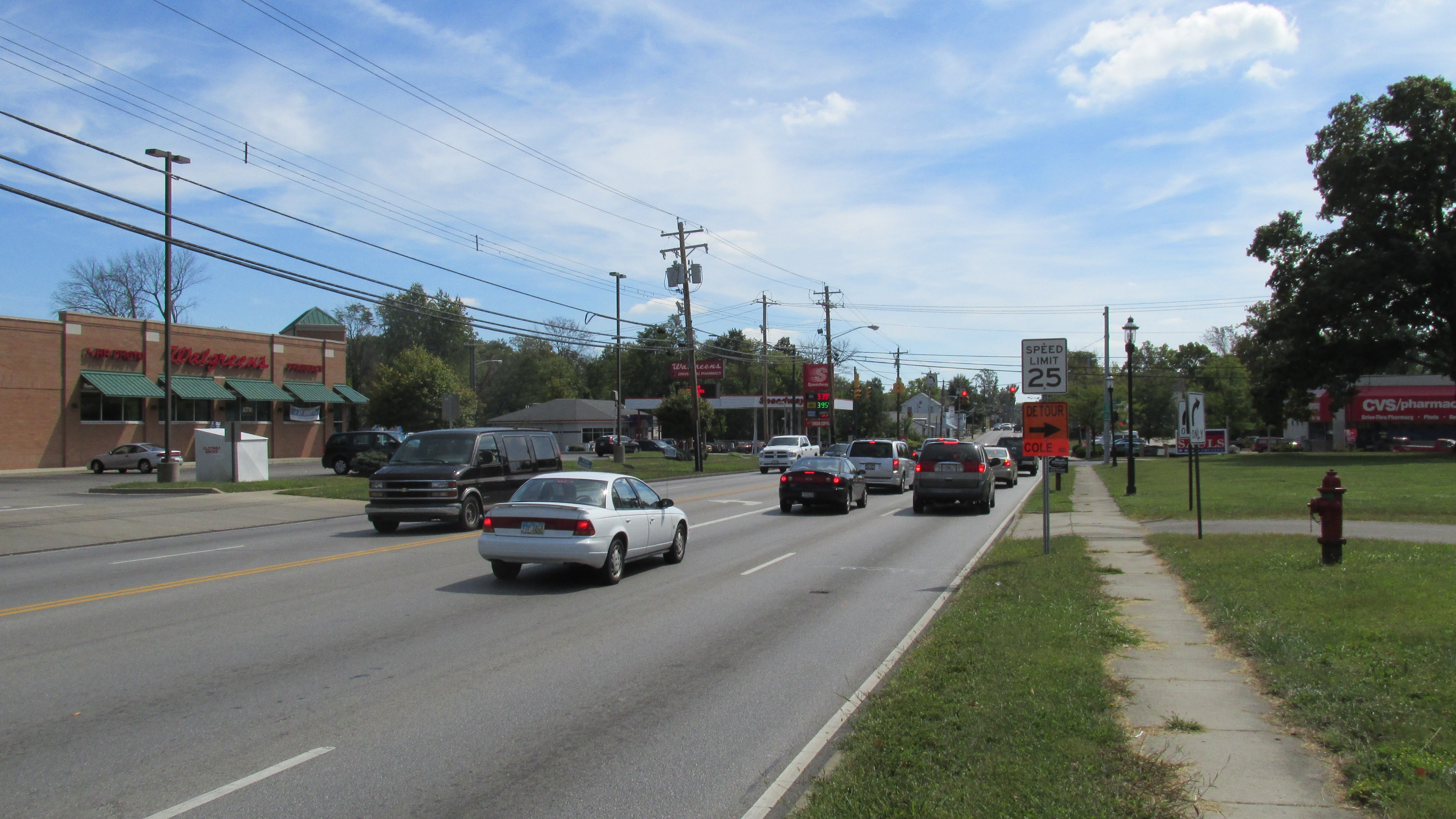 Looking east on Main Street (Ohio Highway 125) in Amelia.